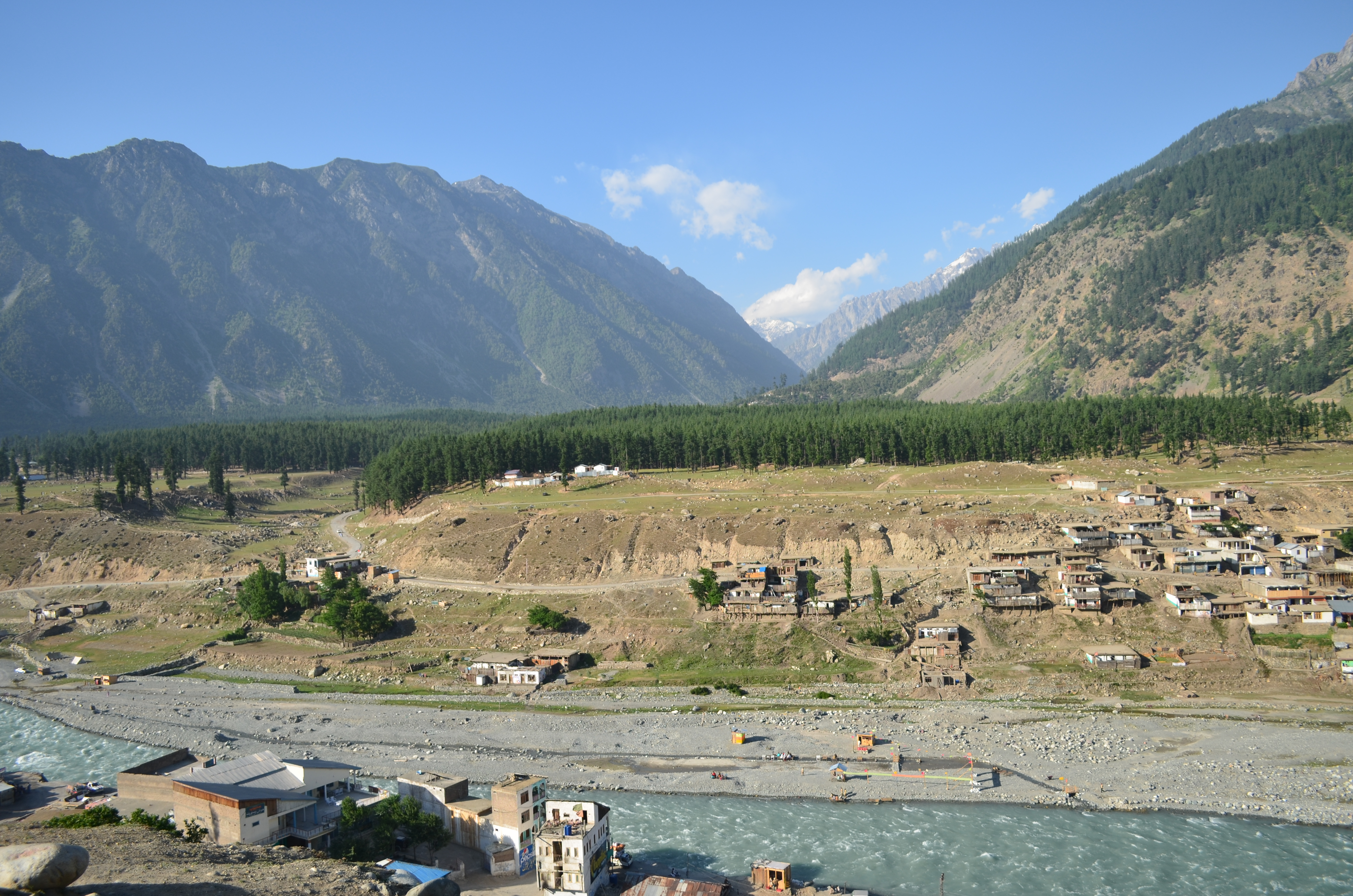 Overview of Kalam Vallye and Kalam Forest with River Swat in the middle